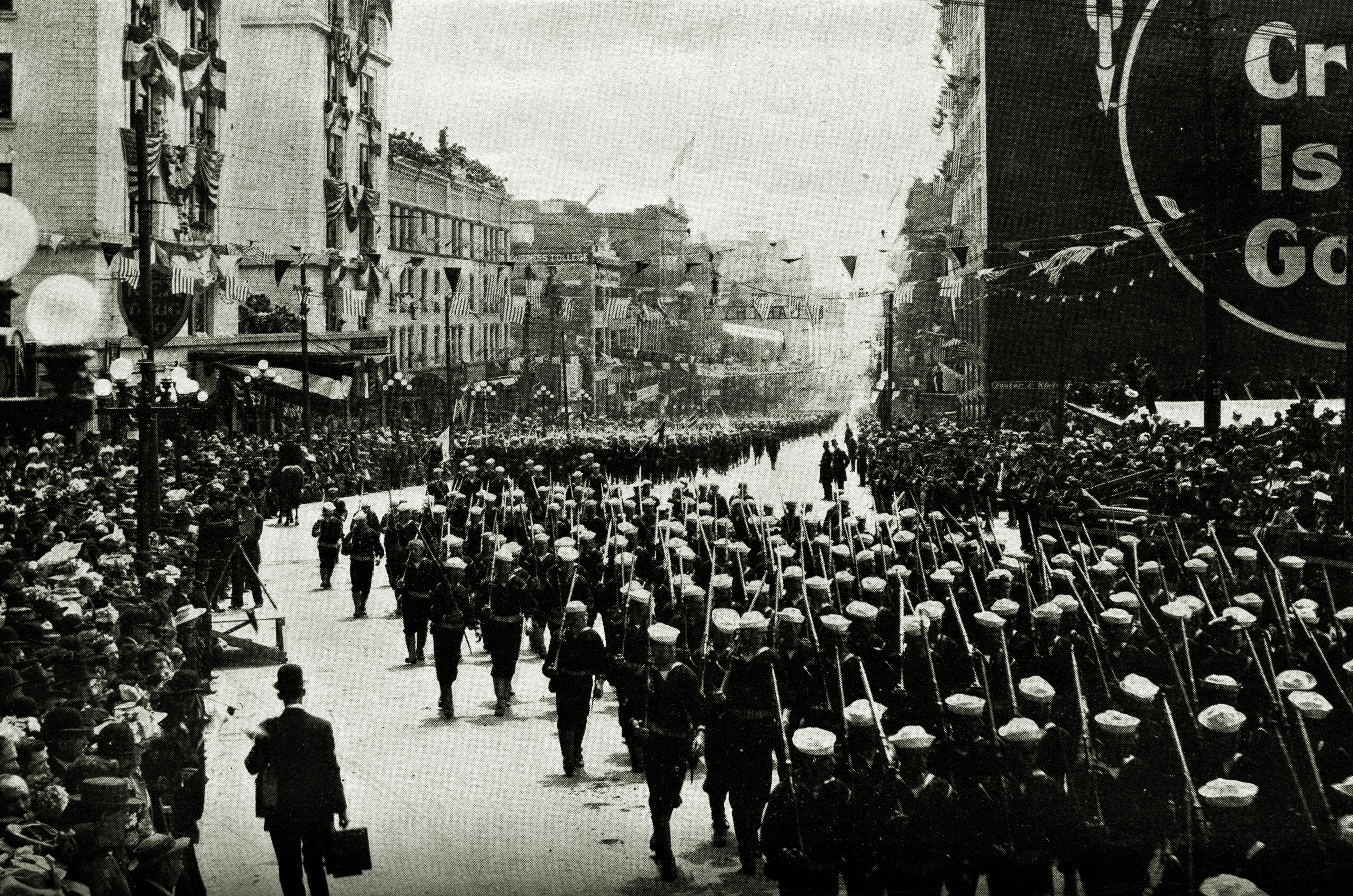 A parade marching down First Avenue in downtown Seattle at some point beyond the turn of the 20th century.